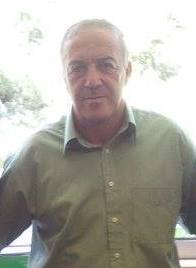 חברי פורום רתועת הביטחון מלחמה ללא שם במ]גשם עם ח"כ אכרם חסון בשנת 2016